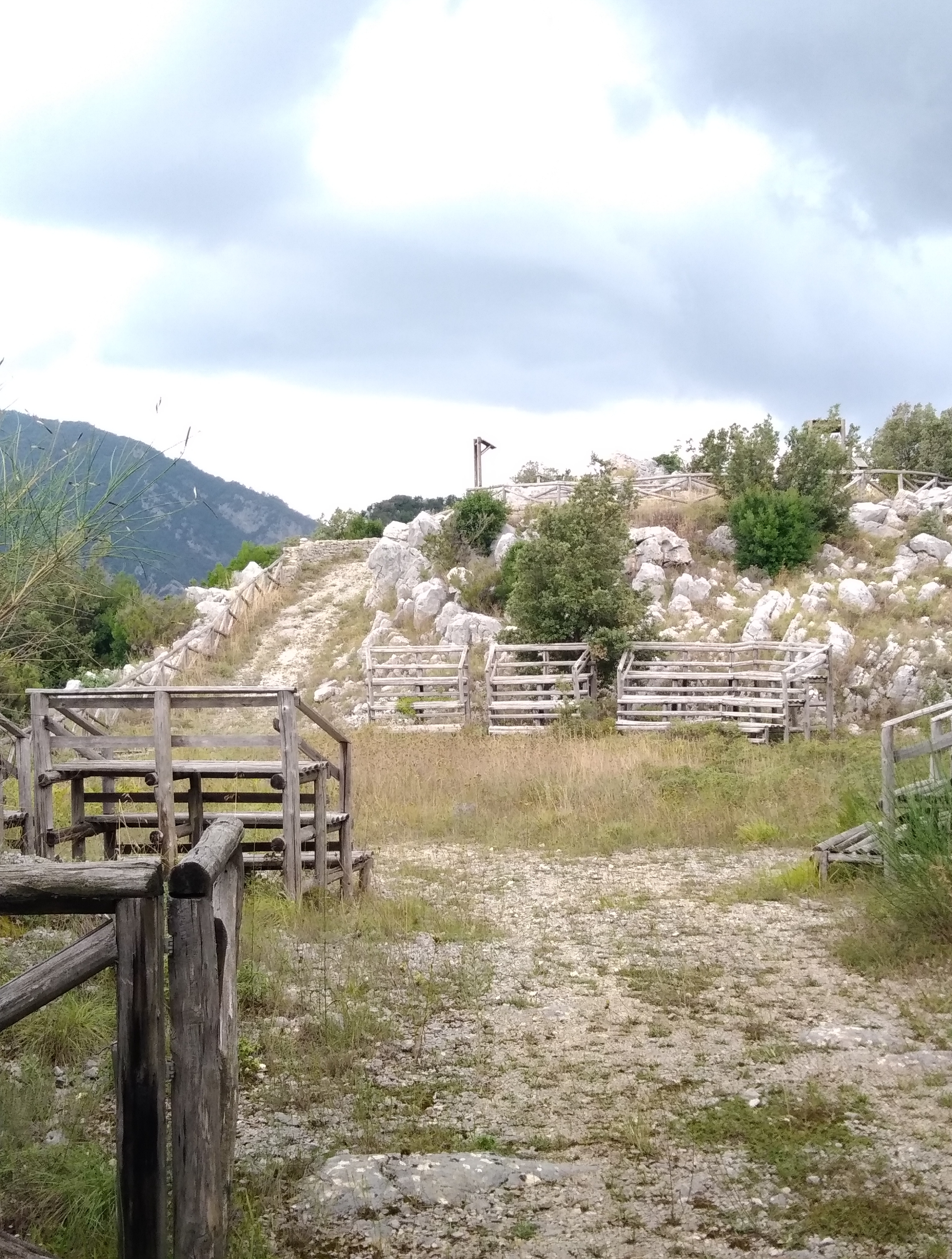 Panoramic point